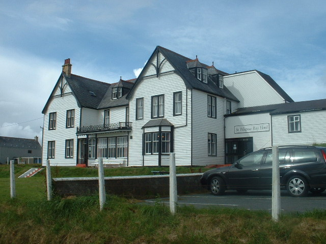 St Magnus Bay Hotel, Hillswick, Shetland. Built in 1900 by the North of Scotland Ferry company. Still functioning, just [in 2004], but the absentee landlord is clearly not interested in maintaining it as a hotel, which is sad.